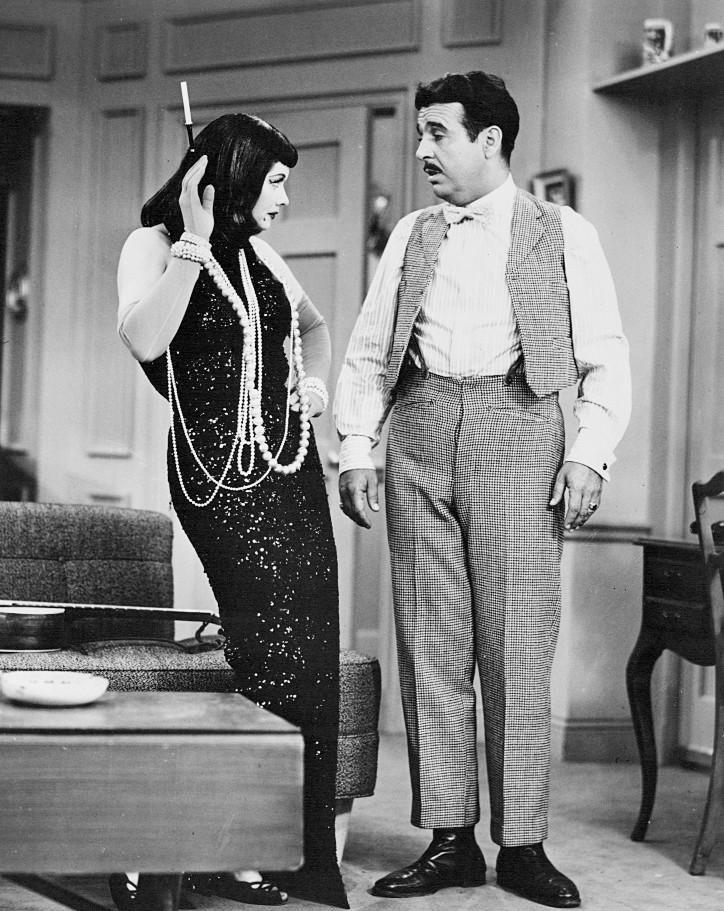 Photo of Lucille Ball as Lucy Ricardo and Tennessee Ernie Ford as "Cousin Ernie" from I Love Lucy. Tennessee Ernie shows up at the Ricardos with a letter introducing himself as "Cousin Ernie". Ernie has nowhere to stay, so he becomes the Ricardos' house guset. After he's really worn out his welcome, Lucy decides to play the vamp with him, hoping it will scare him back to Tennessee. This was a 2 part episode in 1954 and was selected as one of the top 10 "Lucy" shows in 1958, when it was re-broadcast.